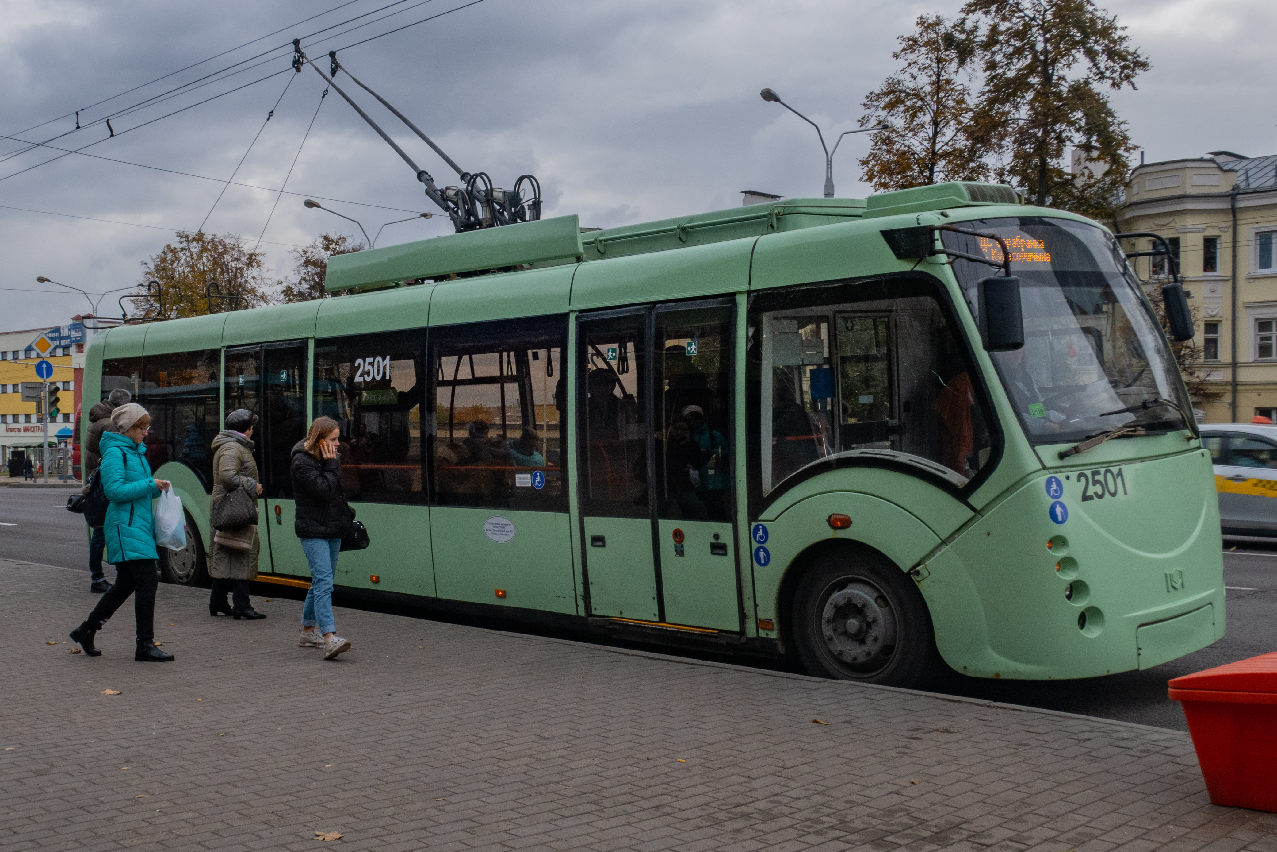 AKSM-420 trolleybus. Minsk, Belarus